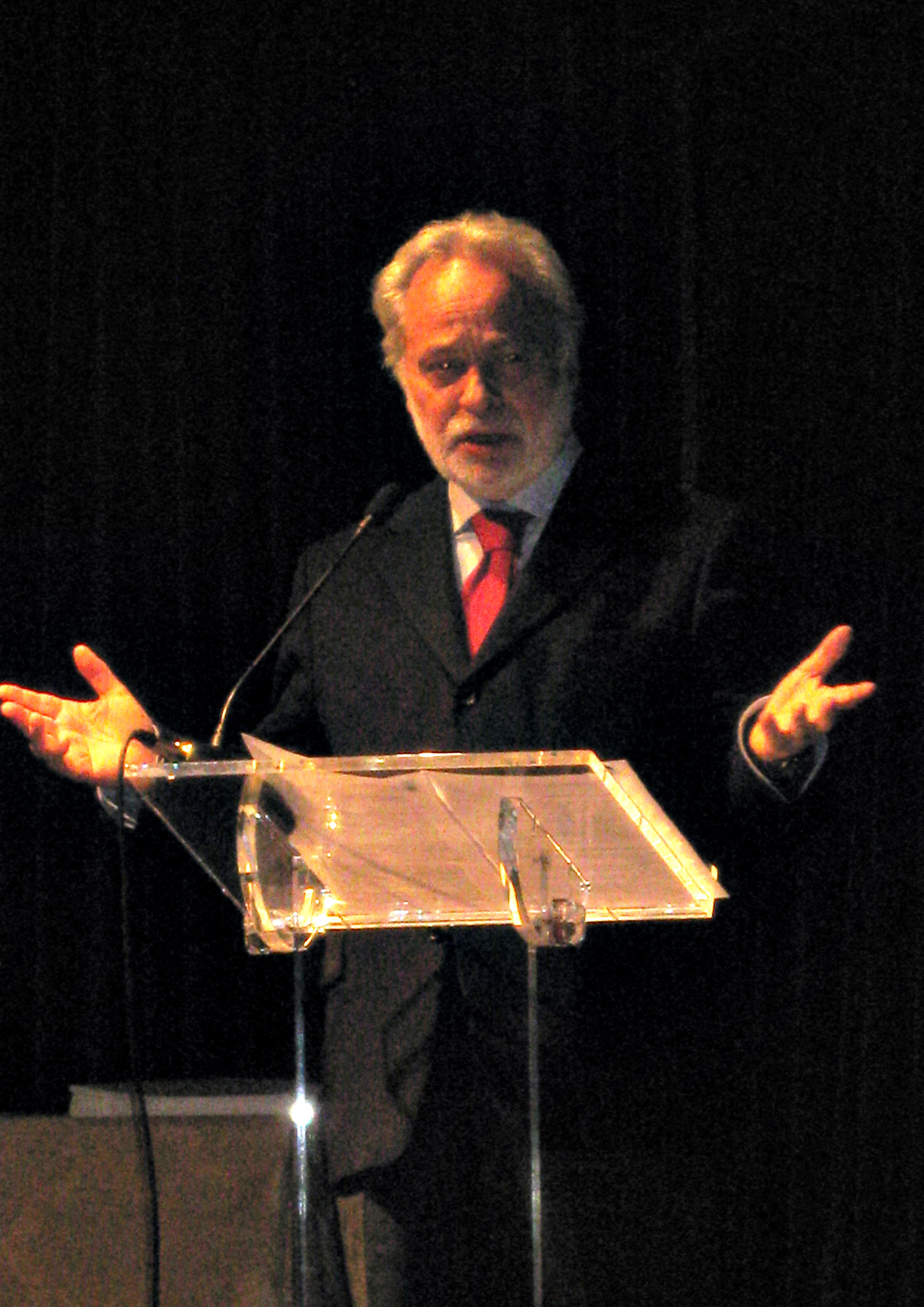 Valentim dos Santos de Loureiro (born December 24, 1938 in Calde, Viseu) is a Portuguese politician, and former football chairman of Boavista F.C. and Liga Portuguesa de Futebol Profissional. He has the rank of Major of the Portuguese Army.